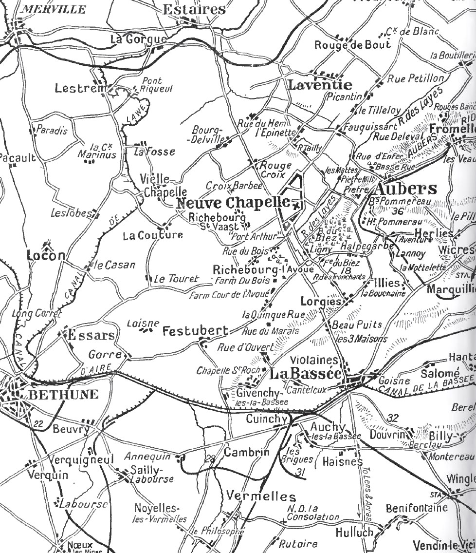 Map, Aubers Ridge and festubert, 1915